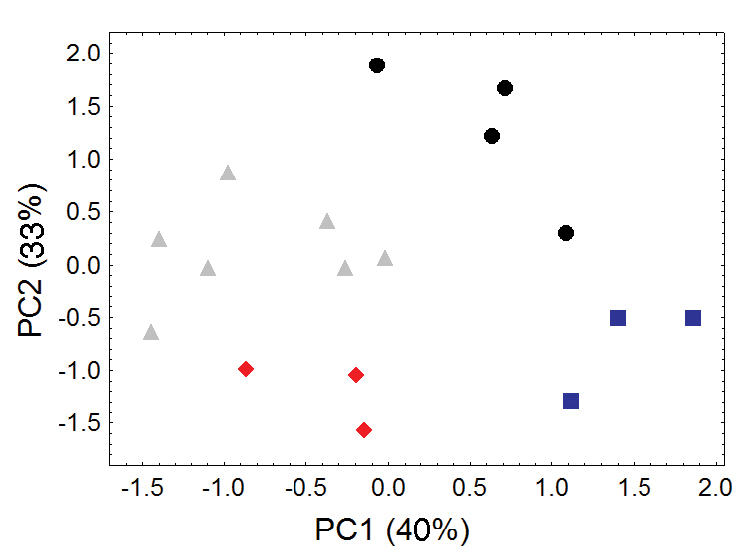 Morphometric distinction between Olinguito subspecies. Both sexes combined. Morphometric dispersion (first two components of a principal component analysis) of 17 adultskulls based on 13 cranial measurements (see Appendix 1, Table A4). (Dental measurements also discretely partition these subspecies in a separate principal component analysis, not shown.) Black dots = Bassaricyon neblina neblina; gray triangles = Bassaricyon neblina osborni; red diamonds = Bassaricyon neblina ruber; blue squares = Bassaricyon neblina hershkovitzi.